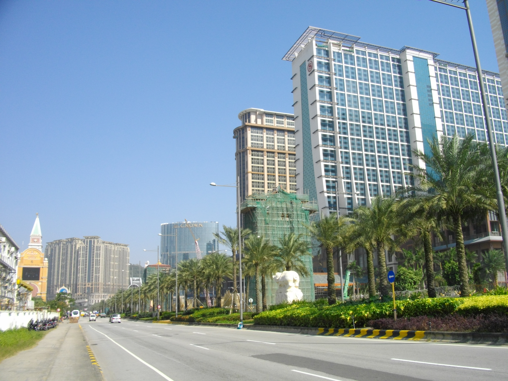 Cotai Strip in 2011